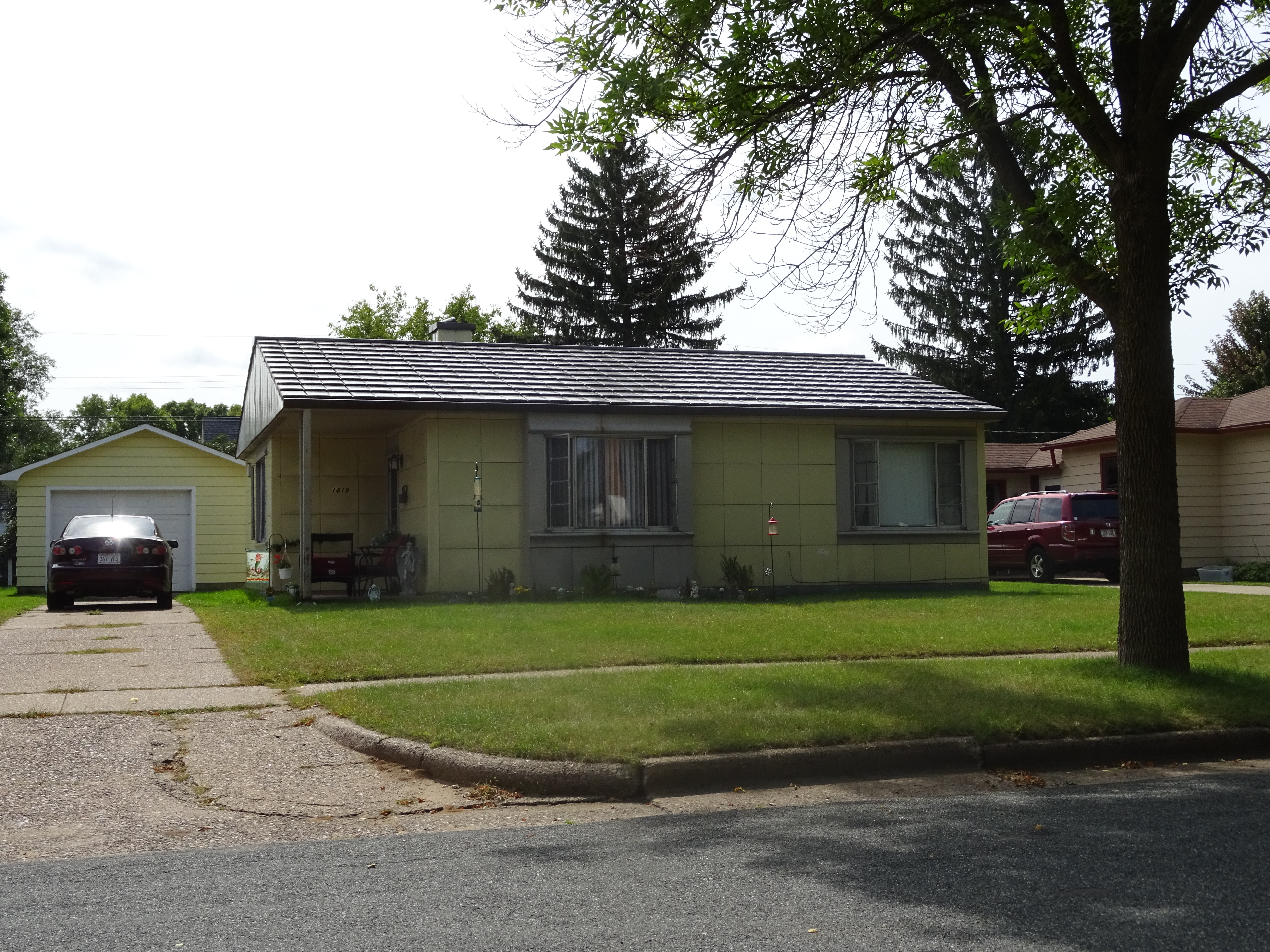 Prefabricated house consisting of metal with a layer of enamel